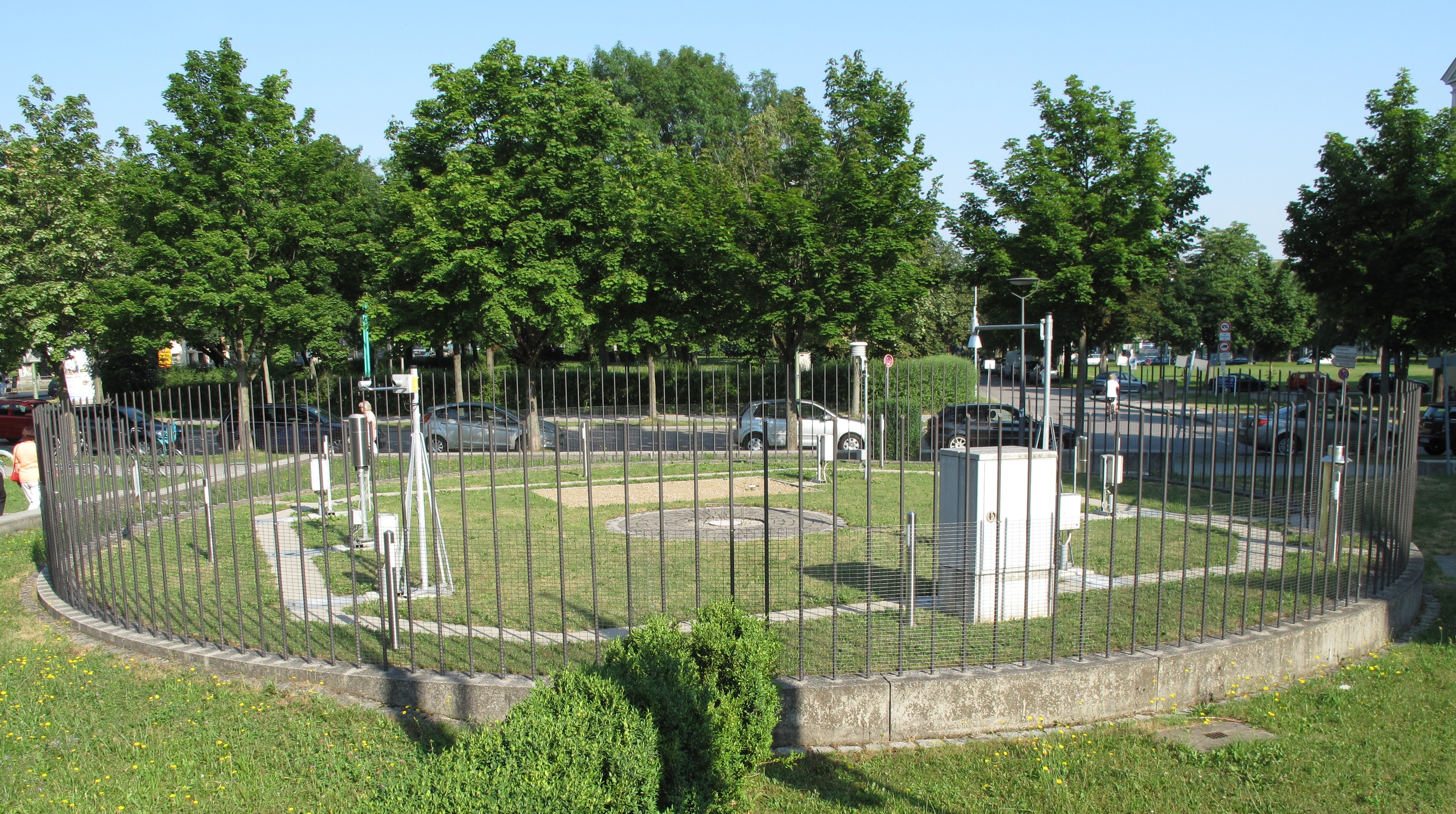 Measurement station of the German Meteorological Service (Deutscher Wetterdienst) in Munich.